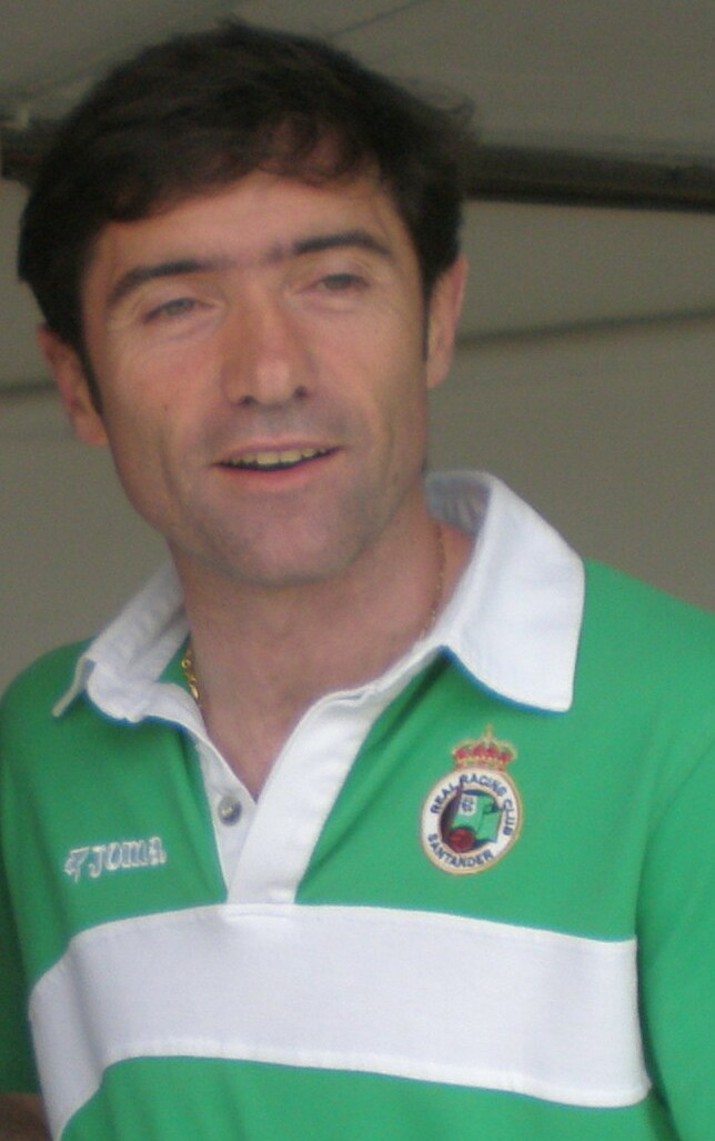 Marcelino García Toral as coach of Racing de Santander